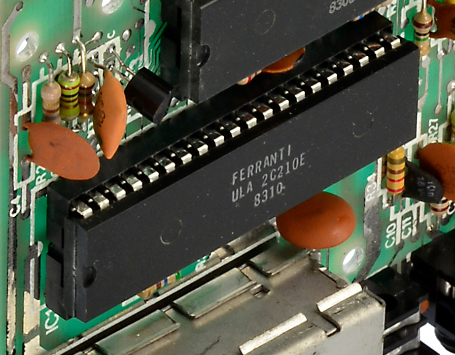 The motherboard of the Timex Sinclair 1000 released in 1982, was the American version of the ZX81, and the first computer to cost under 100$. It has black and white graphics and no sound, an integraded membrane keyboard, and an expansion slot. I was followed by the model 1500 in 1983. The Motherboard of the Timex Sinclair 1000 contains the 8-bit 3.25MHz Zilog Z80A CPU. It has 2 KB of memory and a 60Hz NTSC TV modulator.